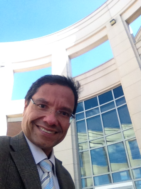 Professor Torrijos at NDU